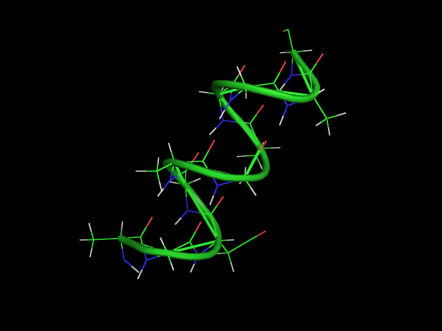 Alpha helix ribbon view